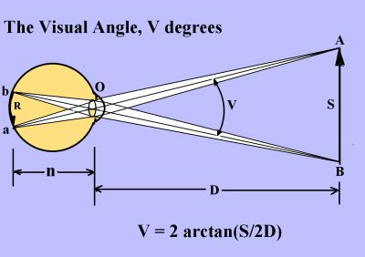 Optical diagram to define the visual angle, V degrees.